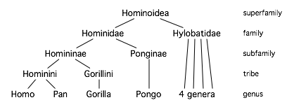 Hominoid taxonomy, diagram 7 (c. 2005, following Groves' splitting of Hylobates into 4 genera).